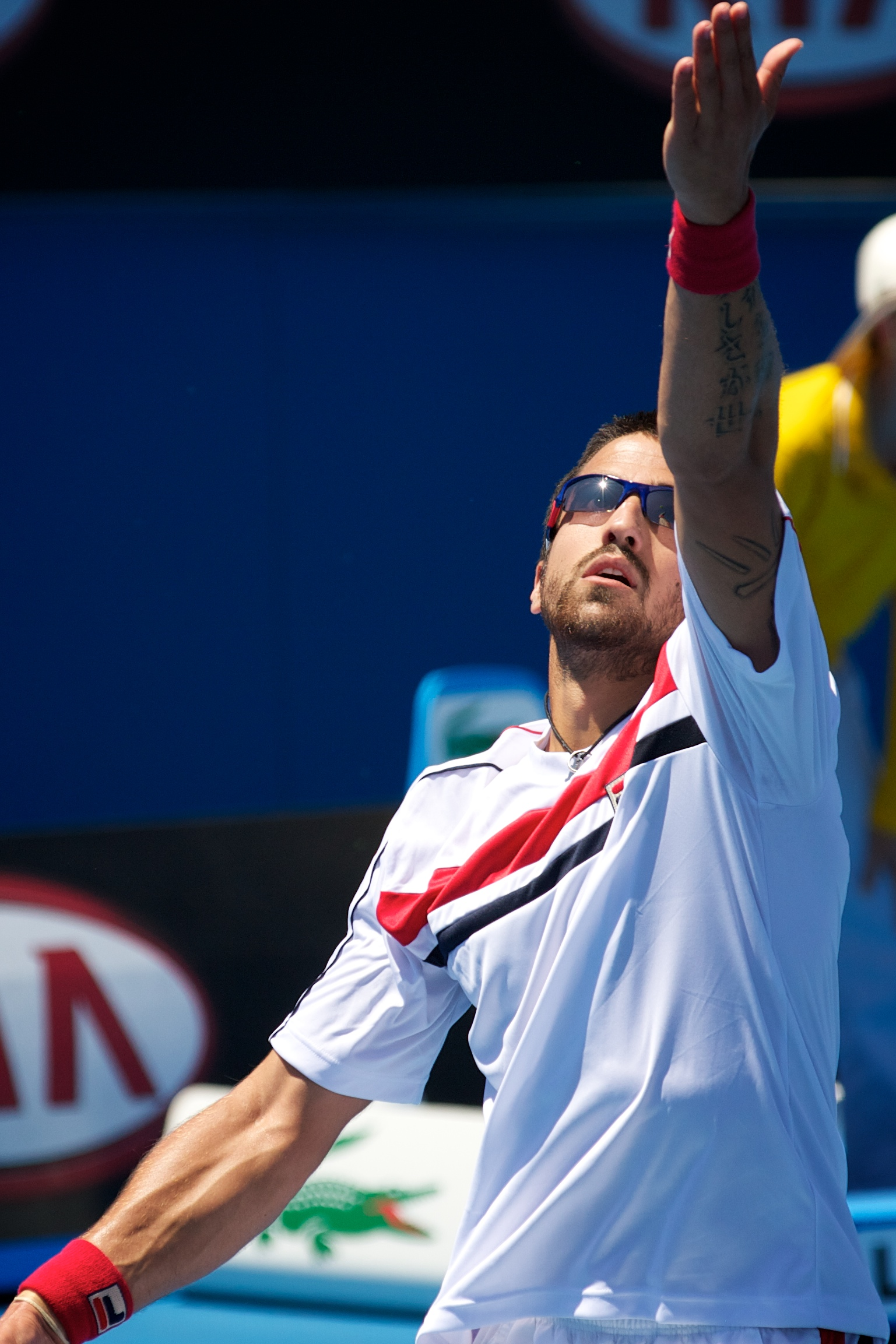 Janko Tipsarevic at the 2011 Australian Open